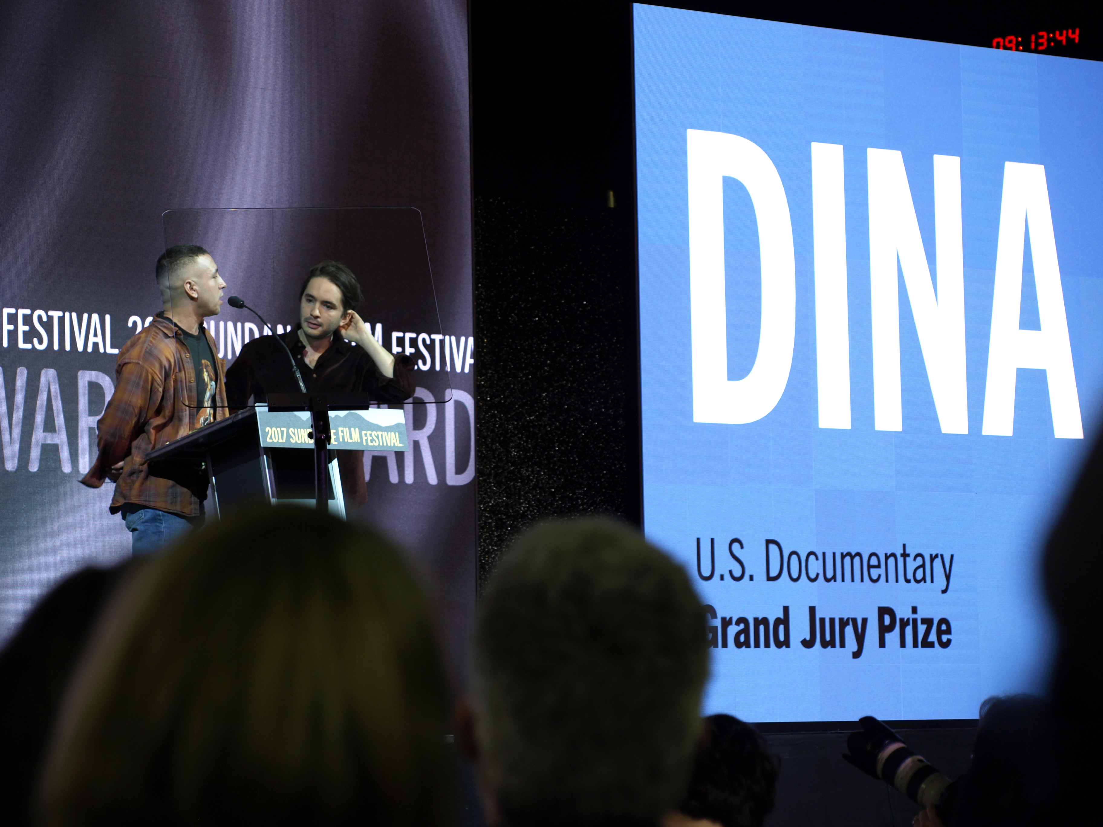 "Dina" won the U.S. Grand Jury Prize: Documentary at Sundance 2017, Park City UT